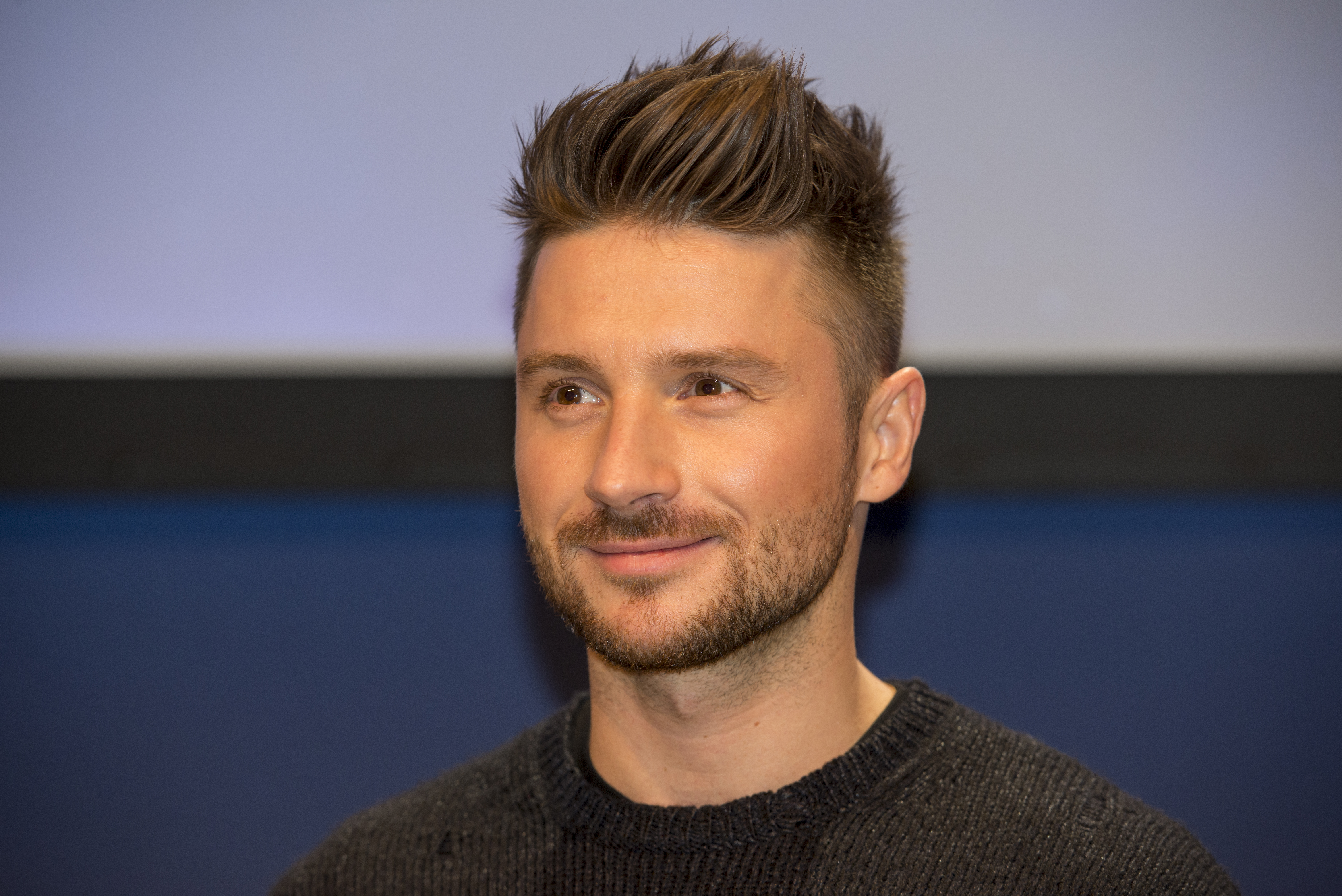 Sergey Lazarev at a Meet & Greet during the Eurovision Song Contest 2016 in Stockholm. (Help translate this text)